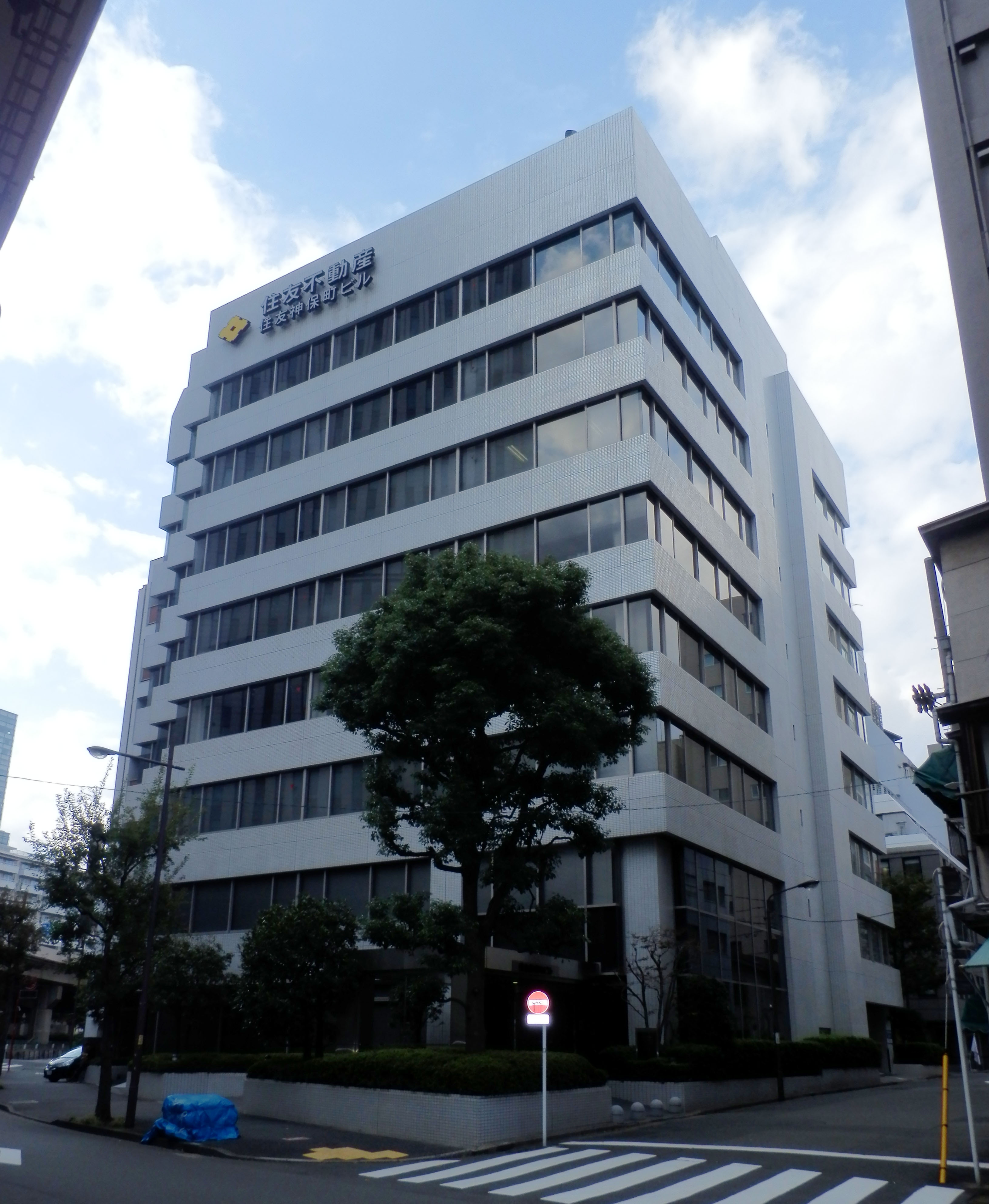 Sumitomo Jinbo-cho Building (Office building in Tokyo, Japan)